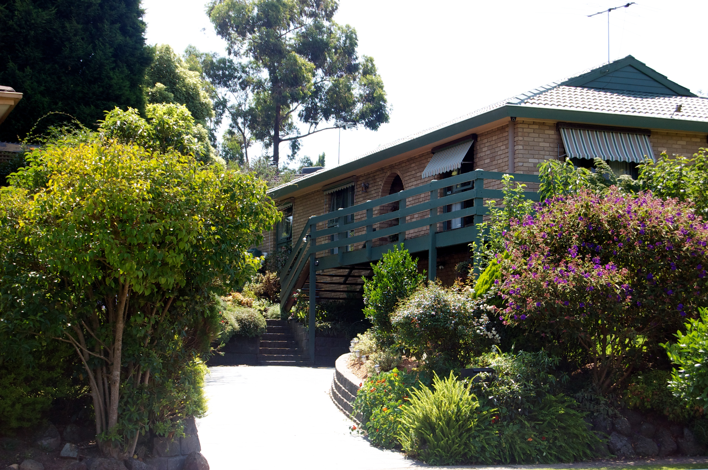 Neighbours - Harold Bishop's House